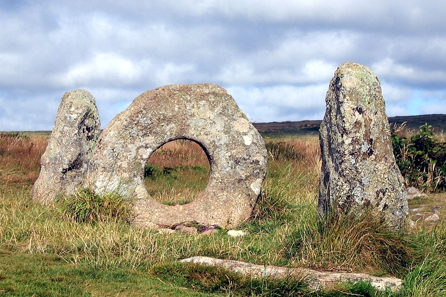 Men-an-Tol - Megalith - Cornwall - UK